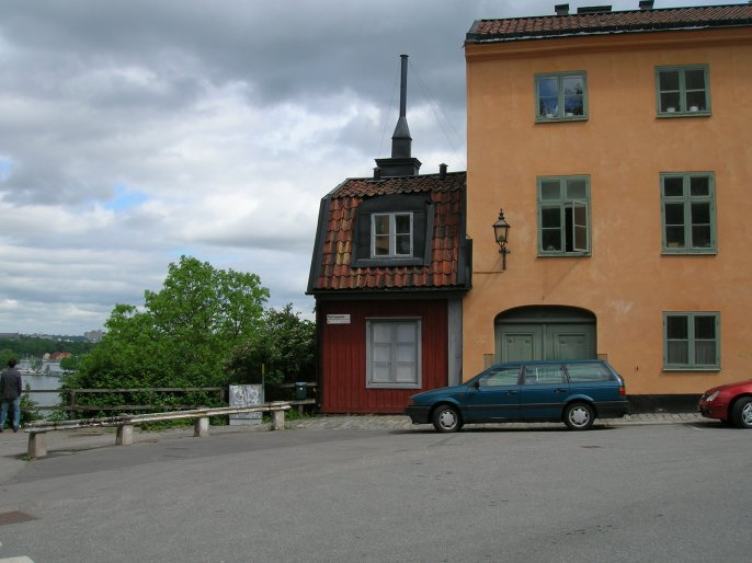 Nytorgsgatan 5, Sodermalm, Stockholm, Sweden. This little house was built 1730, the house next to it 1781.